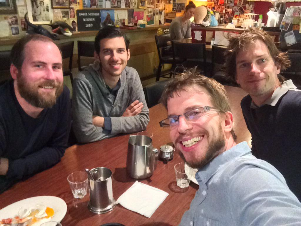 Developers of Mini Metro. From left to right: Jamie Churchman, Richard Vreeland (Disasterpeace), Robert and Peter Curry.